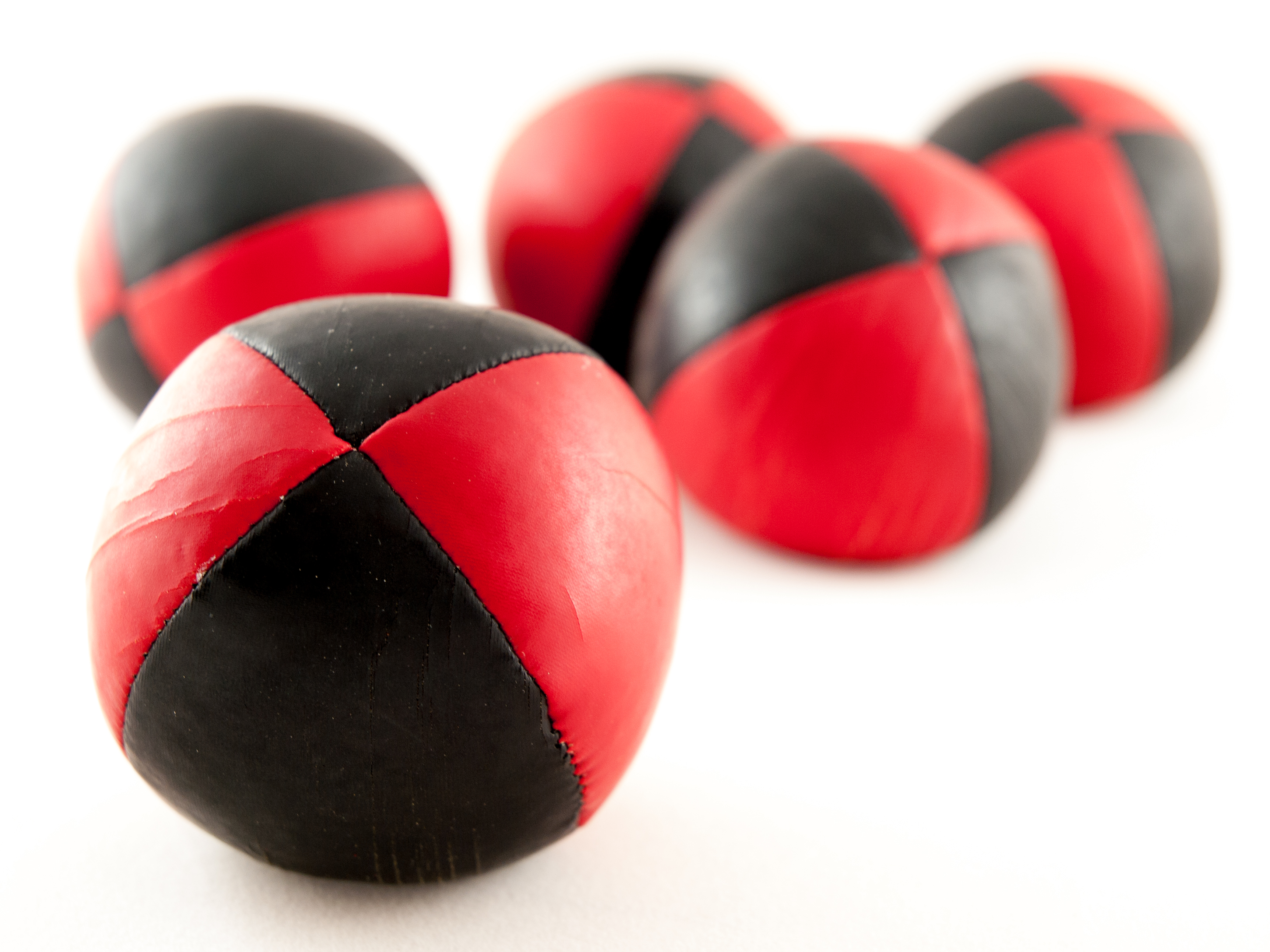 Juggling balls PERMISSION TO USE: you are welcome to use this photo free of charge for any purpose including commercial. I am not concerned with how attribution is provided - a link to my flickr page or my name is fine. If the used in a context where attribution is impractical, that's fine too. I want my photography to be shared widely. I like hearing about where my photos have been used so please send me links, screenshots or photos where possible.